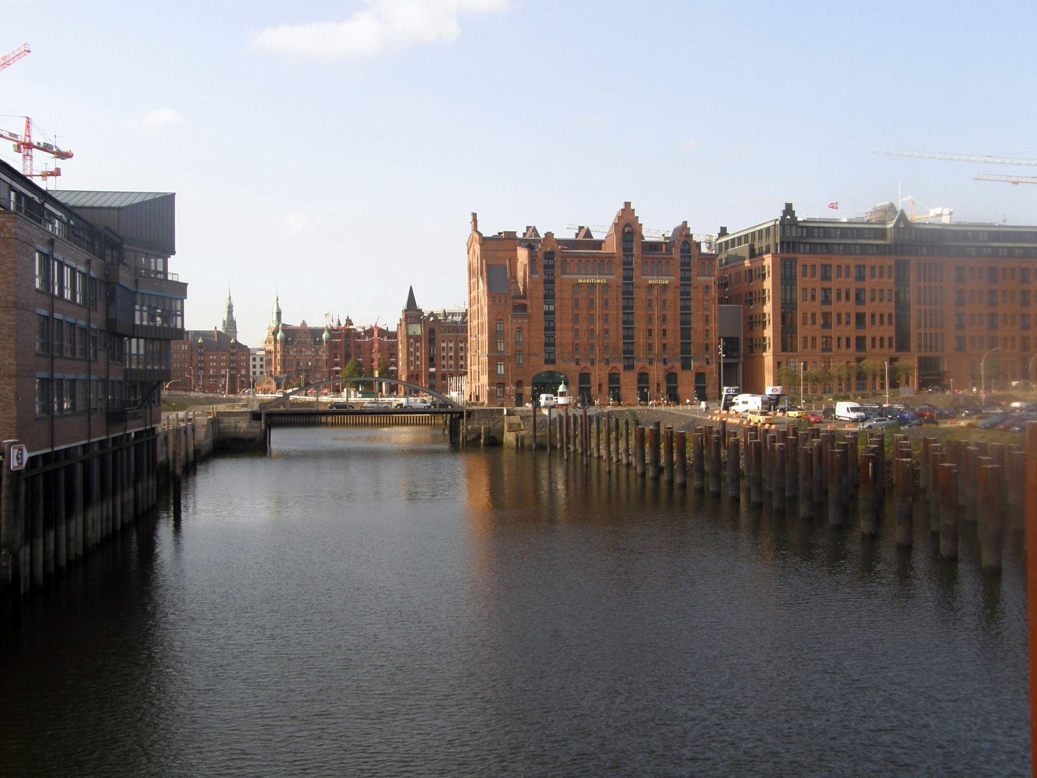 Port of Hamburg HafenCity